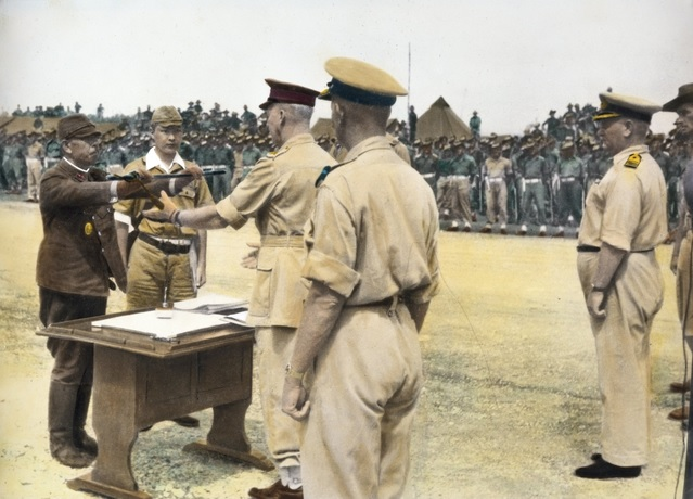 Wewak, 1945-09-13. Major-General H.C.H. Robertson, GOC of the Australian 6th Division, at the ceremony at which the commander of the 18th Japanese Army in New Guinea, Lieutenant-General Hatazo Adachi, signed the surrender document, accepting from general Adachi his sword, symbol of the defeat of the Japanese.